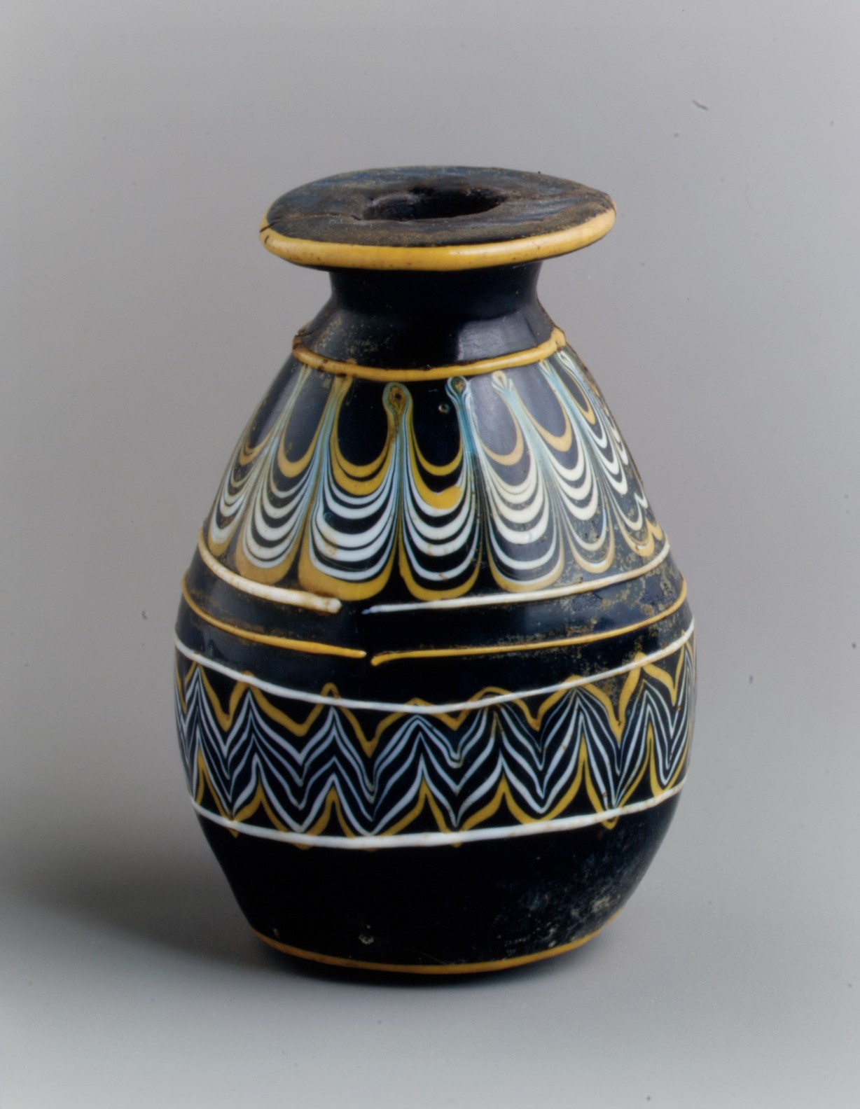 Vase